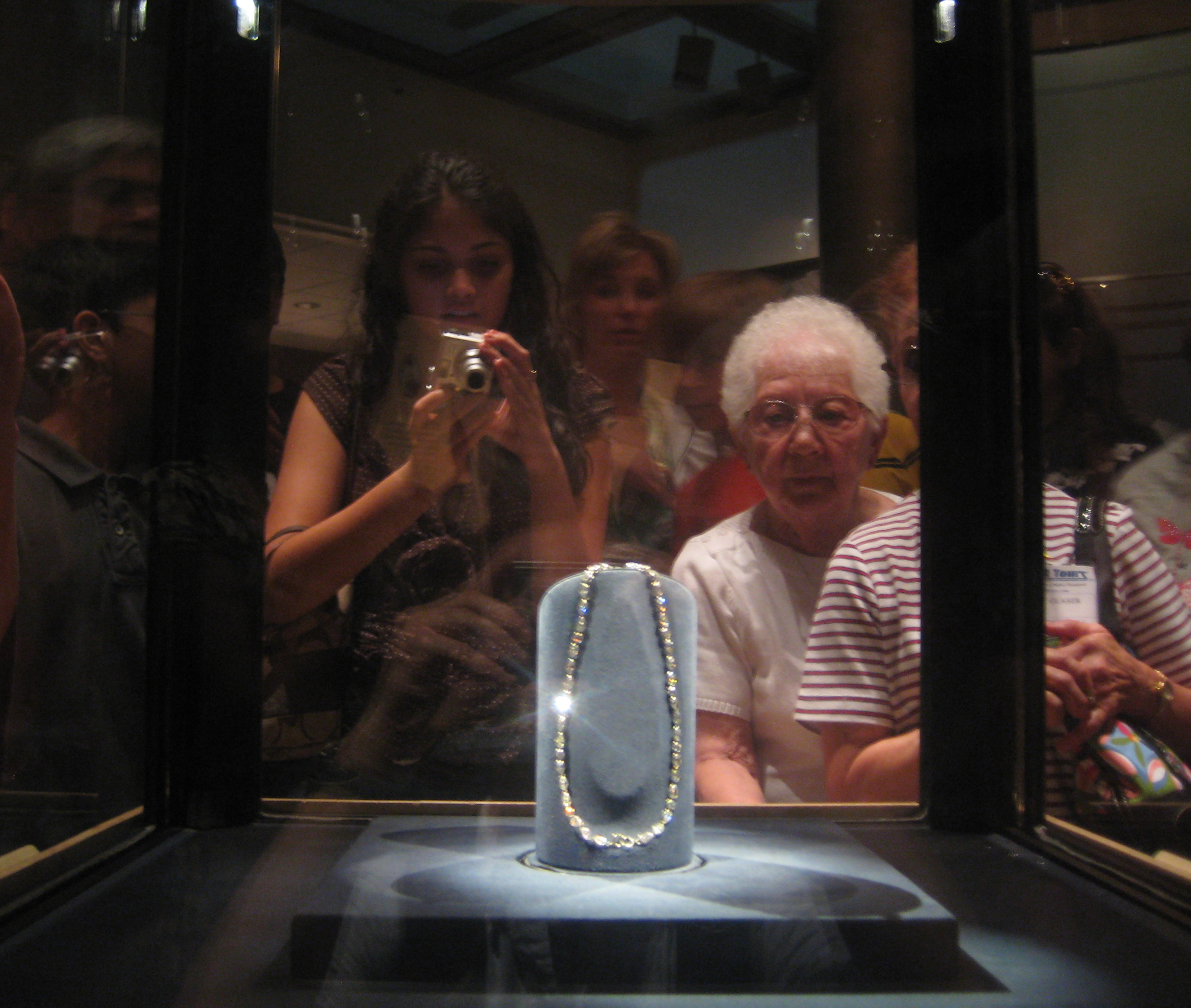 The Hope Diamond, seen from the rear, with many wide-eyed museum-goers peering at it through the case.